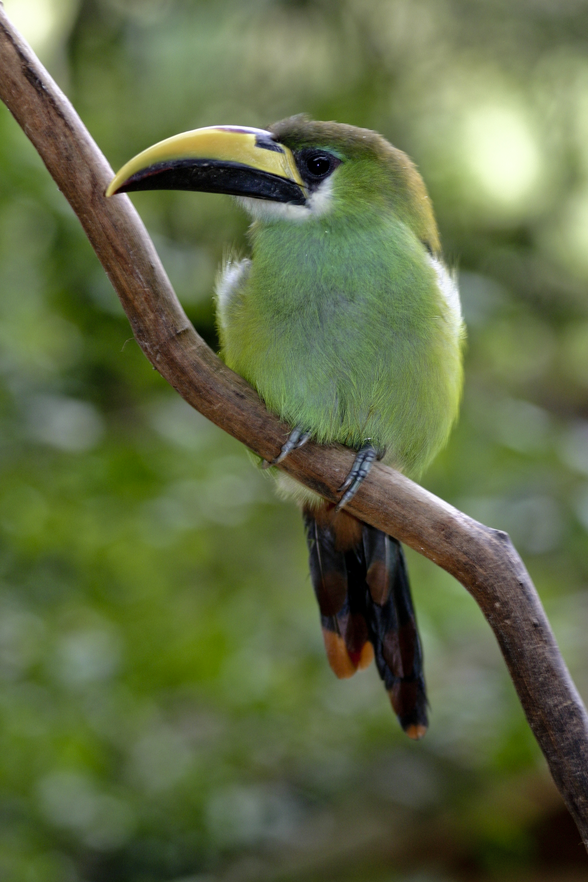 Emerald Toucanet perching on a branch.